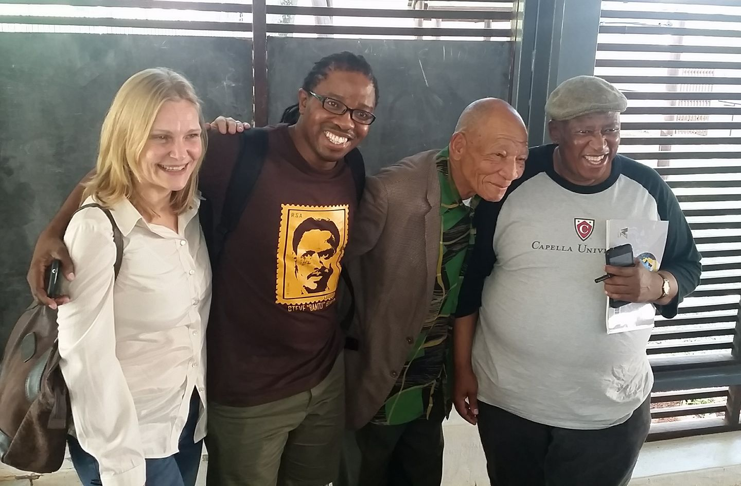 South African Writers - Don Mattera, Kirsten Miller and Zakes Mda at the KZNSA Gallery in Durban, South Africa of 16 March 2017